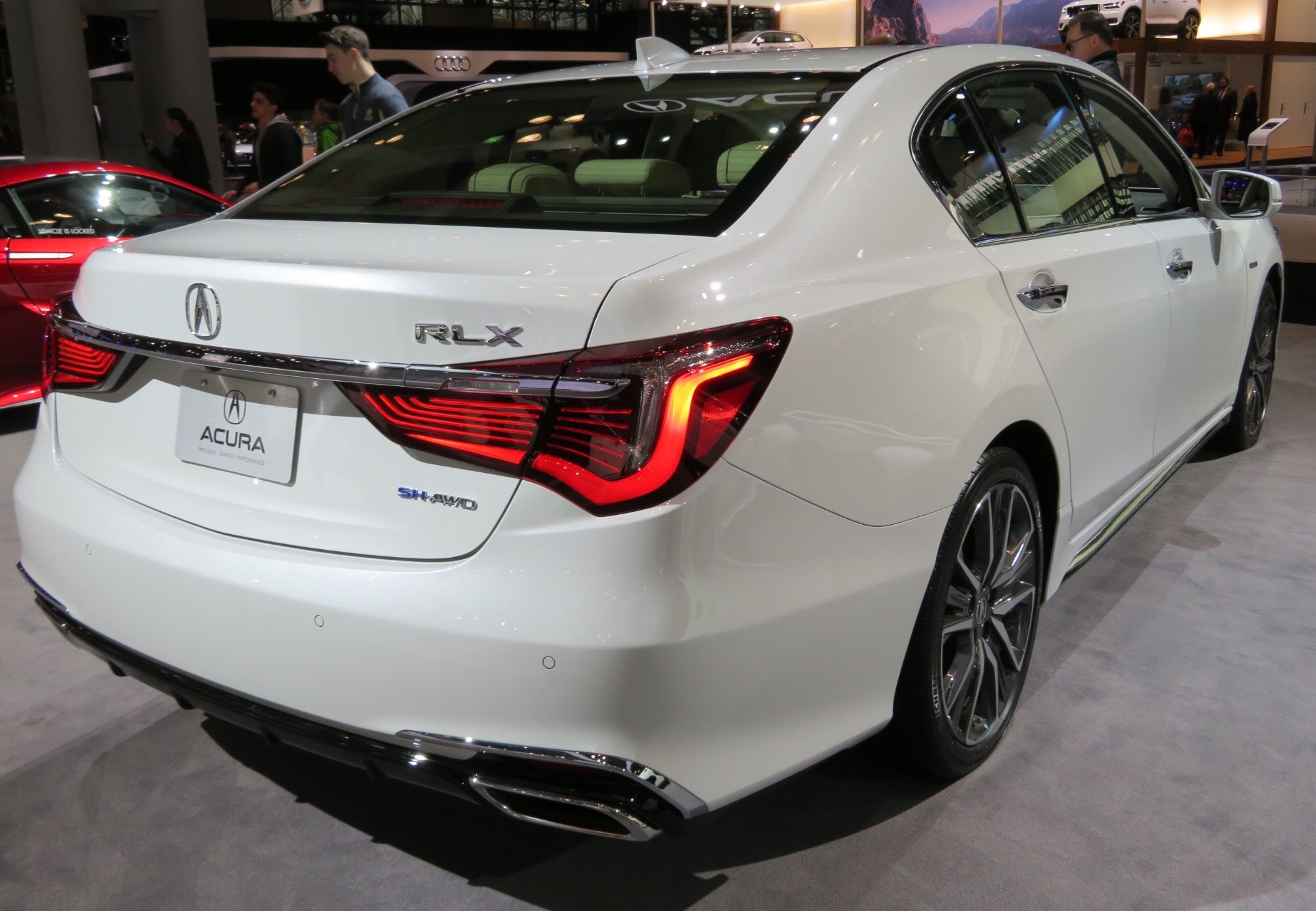 In New York International Auto Show, at Manhattan, New York, USA.